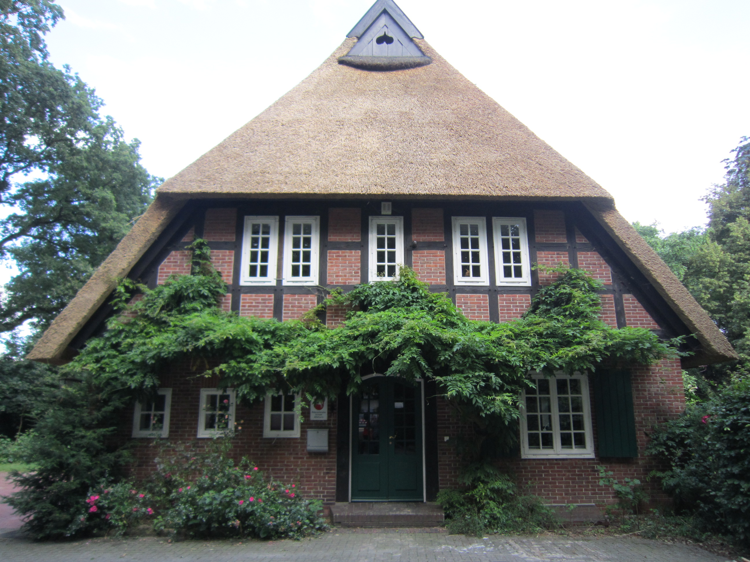 Lower Saxon Forest Office in Ahlhorn